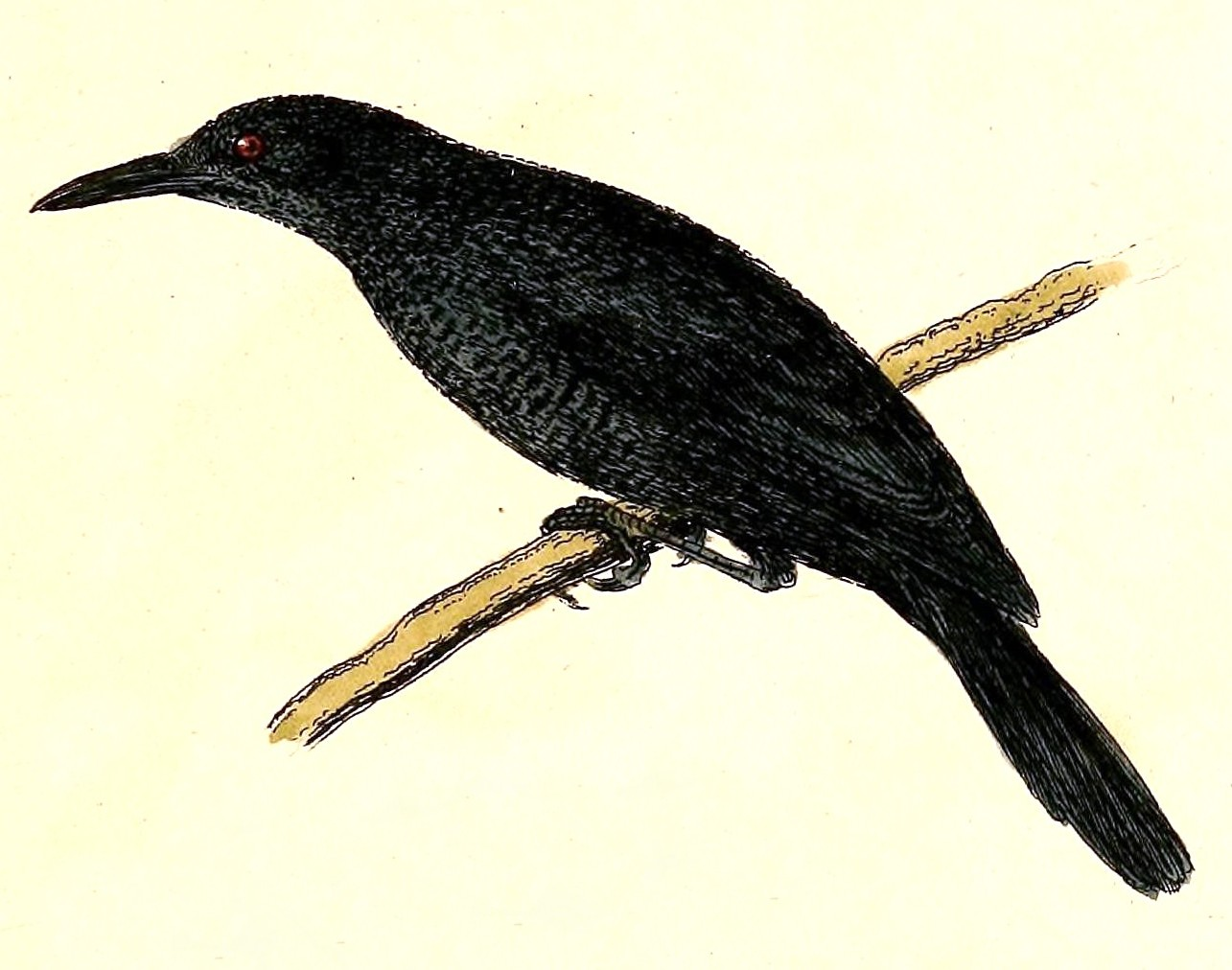 « Lamprothornis corvina » = Aplonis corvina (Kosrae Island Starling)